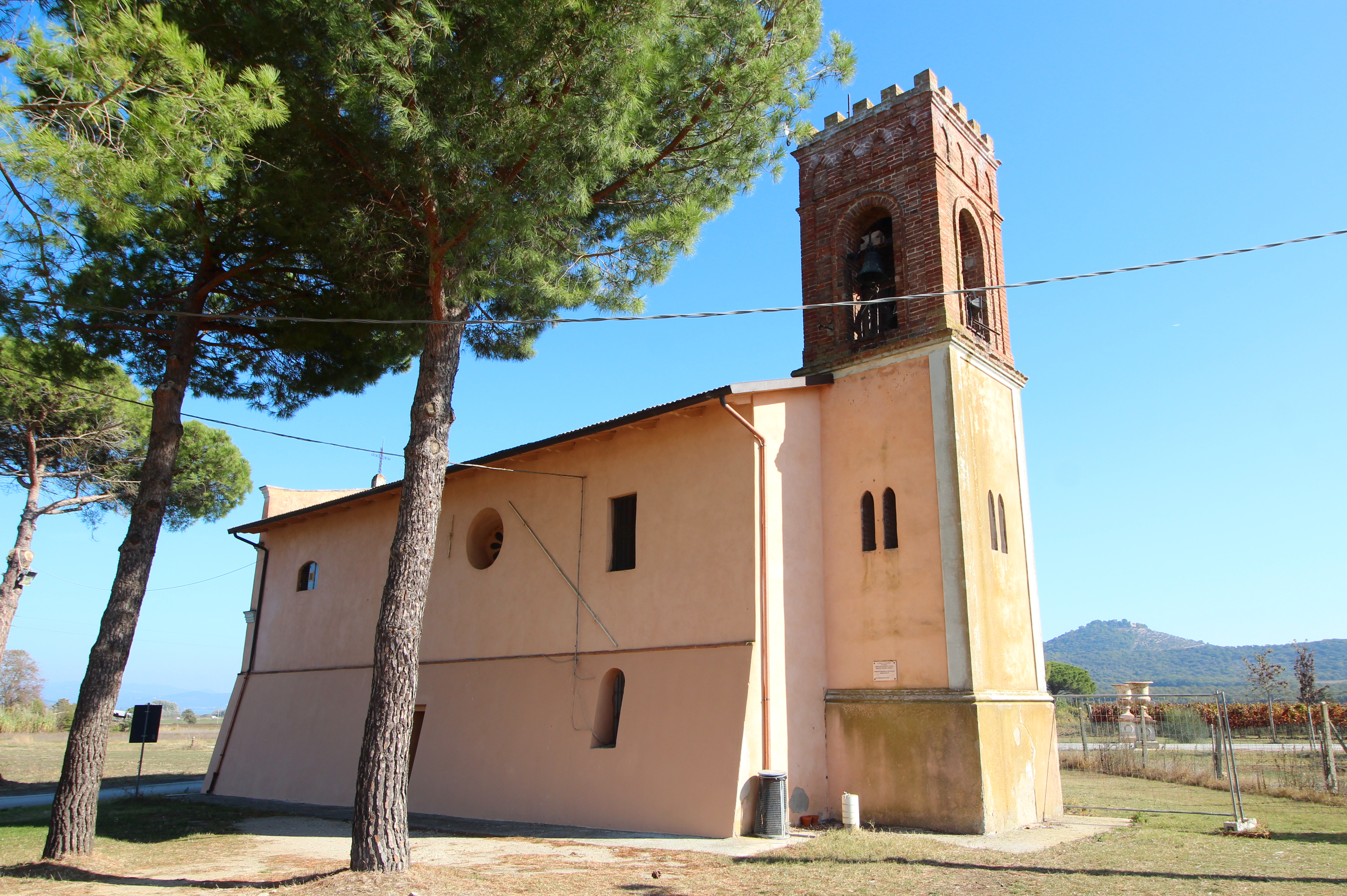 Church/Sanctuary Madonna del Busso, Panicarola, hamlet of Castiglione del Lago, Province of Perugia, Umbria, Italy